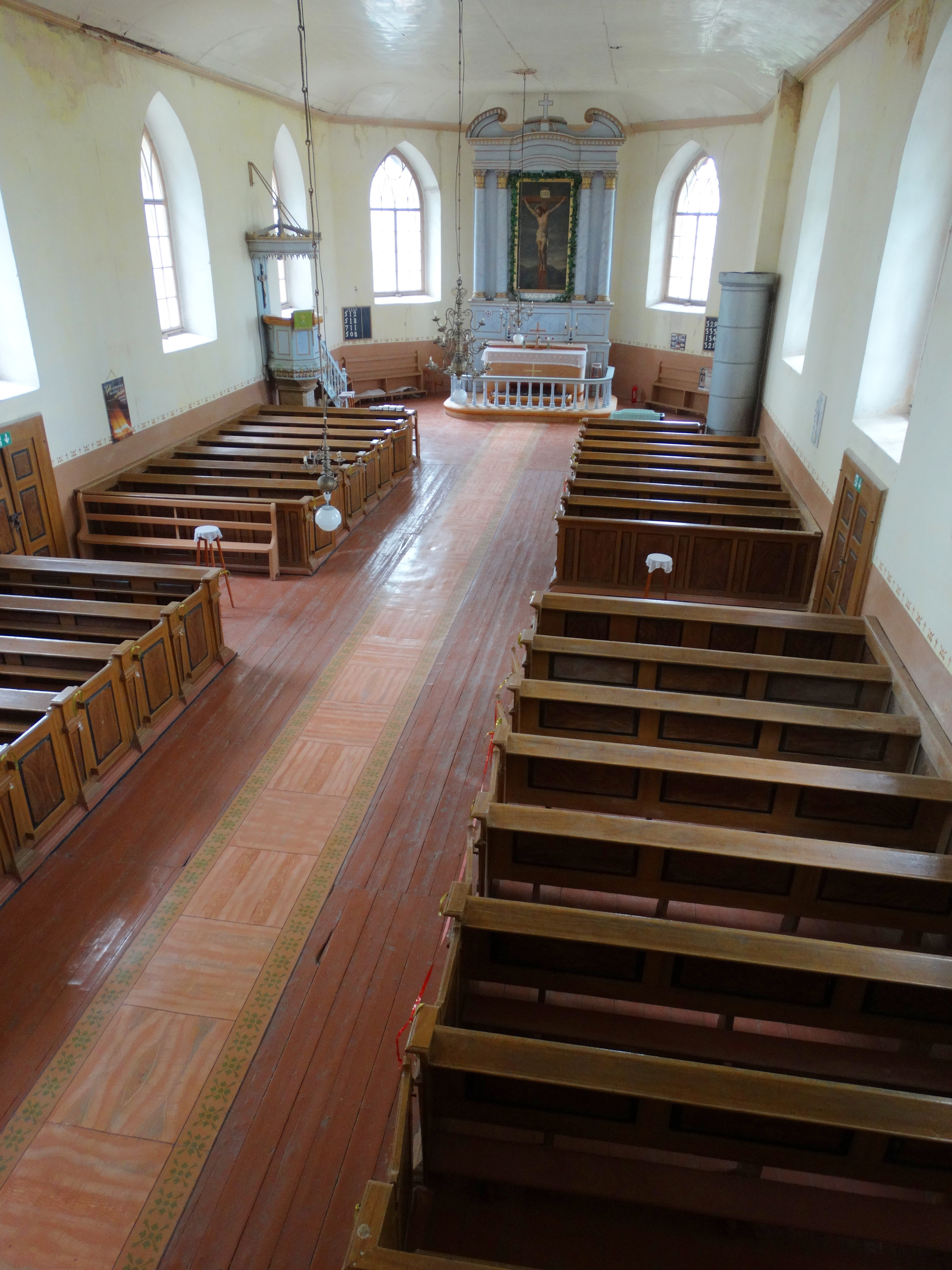 Evangelical Lutheran Church, interior, Žeimelis, Lithuania